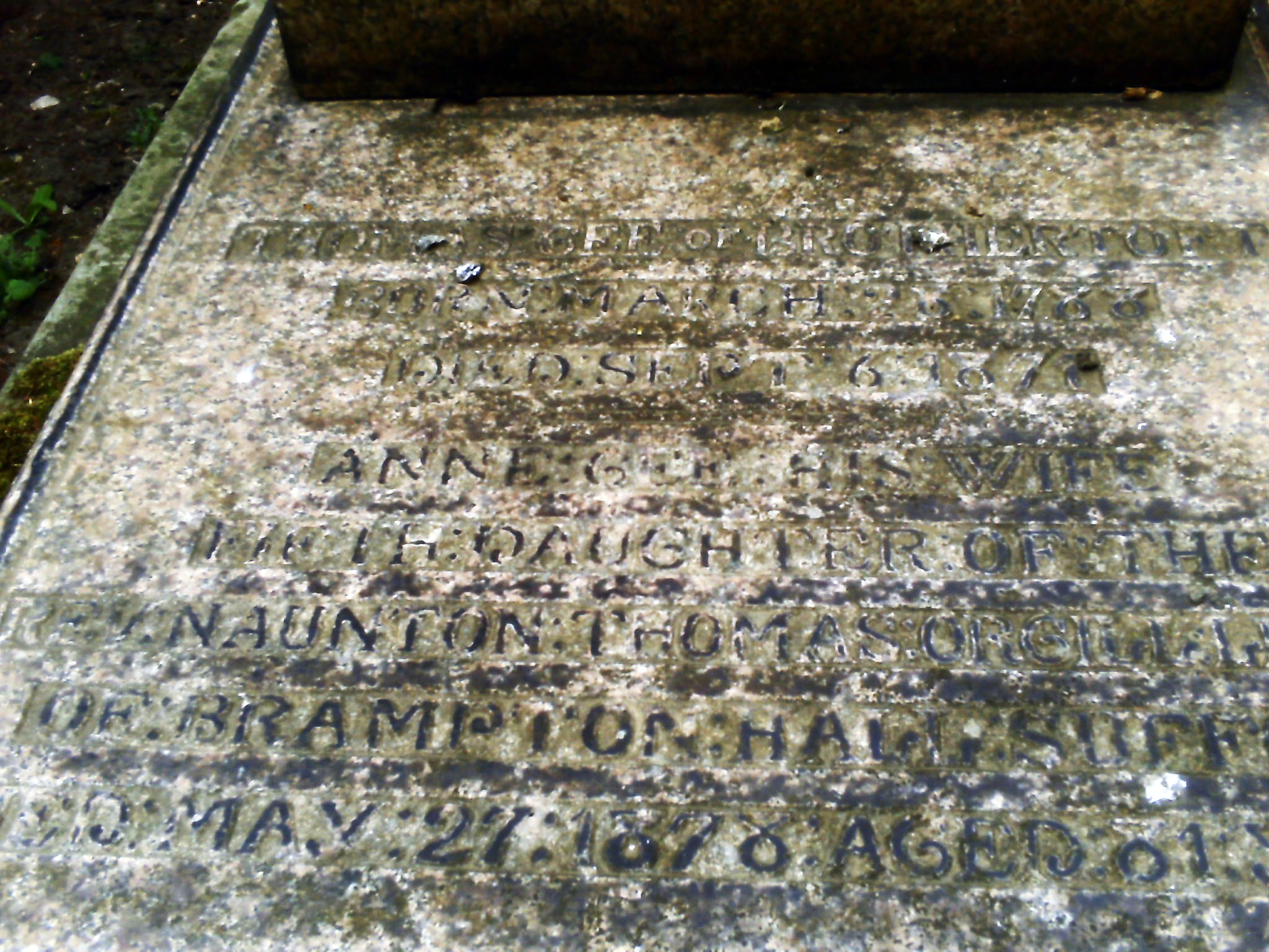 Grave of Thomas Gee & Ann Leman at Brothertoft, Lincolnshire